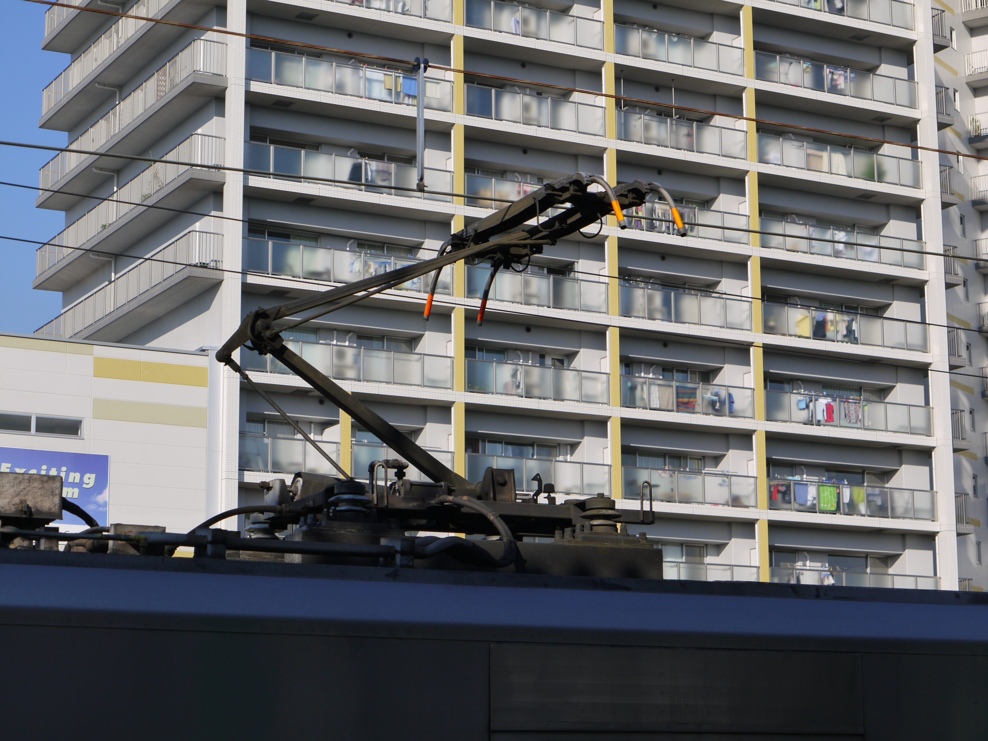 PT-7110 Pantograph on a Keio 9000